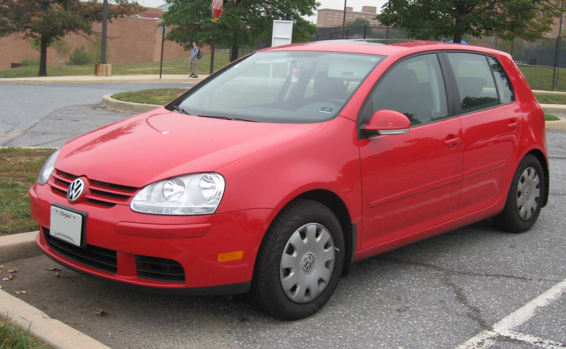 2007-2008 Volkswagen Rabbit photographed in College Park, Maryland, USA.